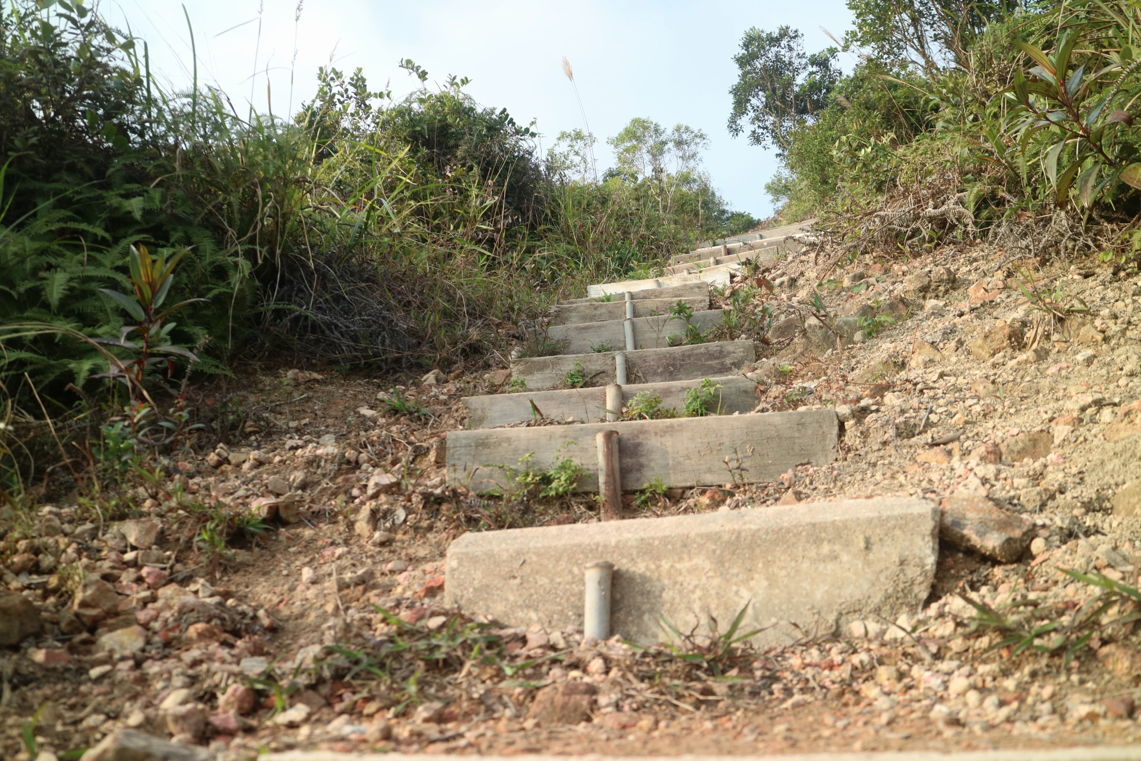 The "stairs" of Razor Hill.